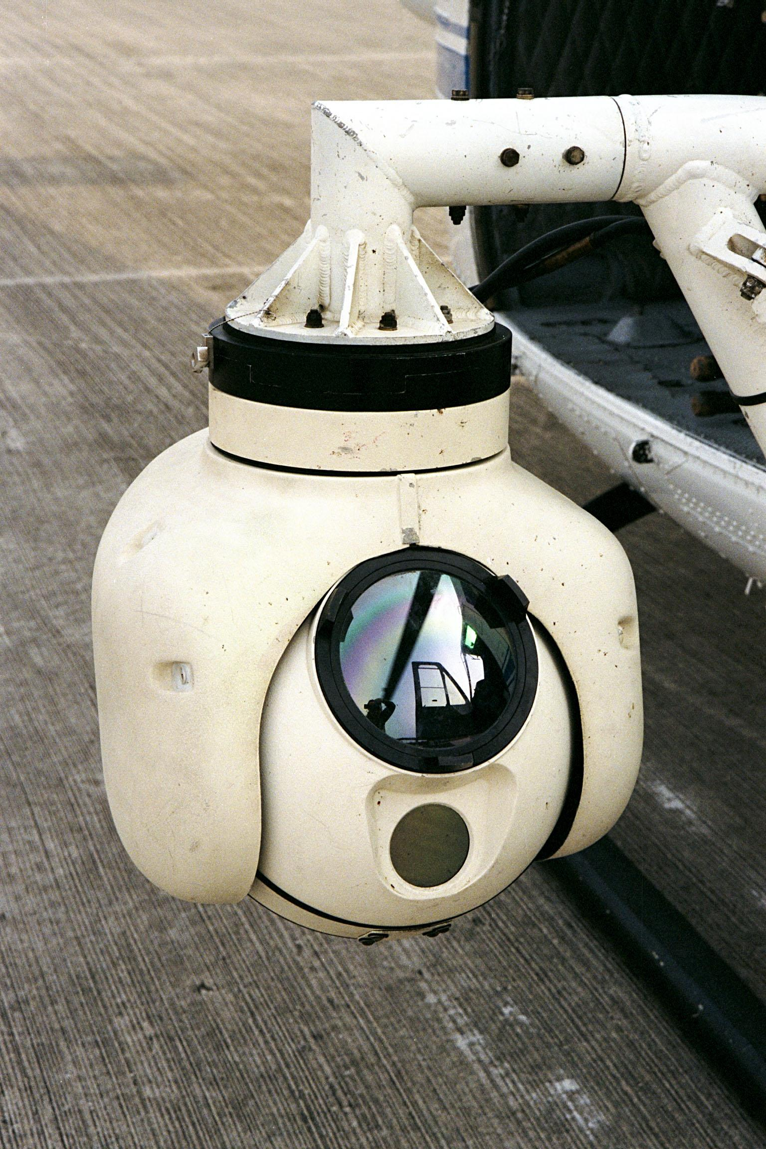 A beach ball-sized infrared camera, part of the Forward Looking Infrared Radar (FLIR), has been mounted on the right siderail of NASA's Huey UH-1 helicopter. The helicopter has also been outfitted with a portable global positioning satellite (GPS) system to support Florida's Division of Forestry as they fight the brush fires which have been plaguing the state as a result of extremely dry conditions and lightning storms. The FLIR also includes a real-time television monitor and recorder installed inside the helicopter. While the FLIR collects temperature data and images, the GPS system provides the exact coordinates of the fires being observed and transmits the data to the firefighters on the ground. The Kennedy Space Center (KSC) security team routinely uses the FLIR equipment prior to Shuttle launch and landing activities to ensure that the area surrounding the launch pad and runway are clear of unauthorized personnel. KSC's Base Operations Contractor, EG&G Florida, operates the NASA-owned helicopter.